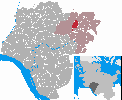 This map shows the area of the municipality Lockstedt in the Kreis (district) Steinburg, Schleswig-Holstein, Germany.